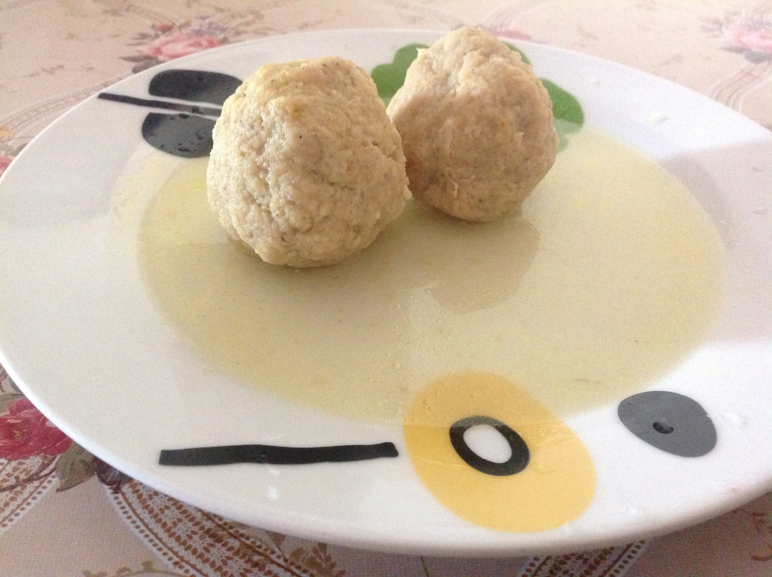 Gondi is a Persian Jewish dish of meatballs made from ground lamb, veal or chicken traditionally served on Shabbat.